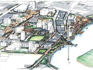 a picture about kuantan metropolis project